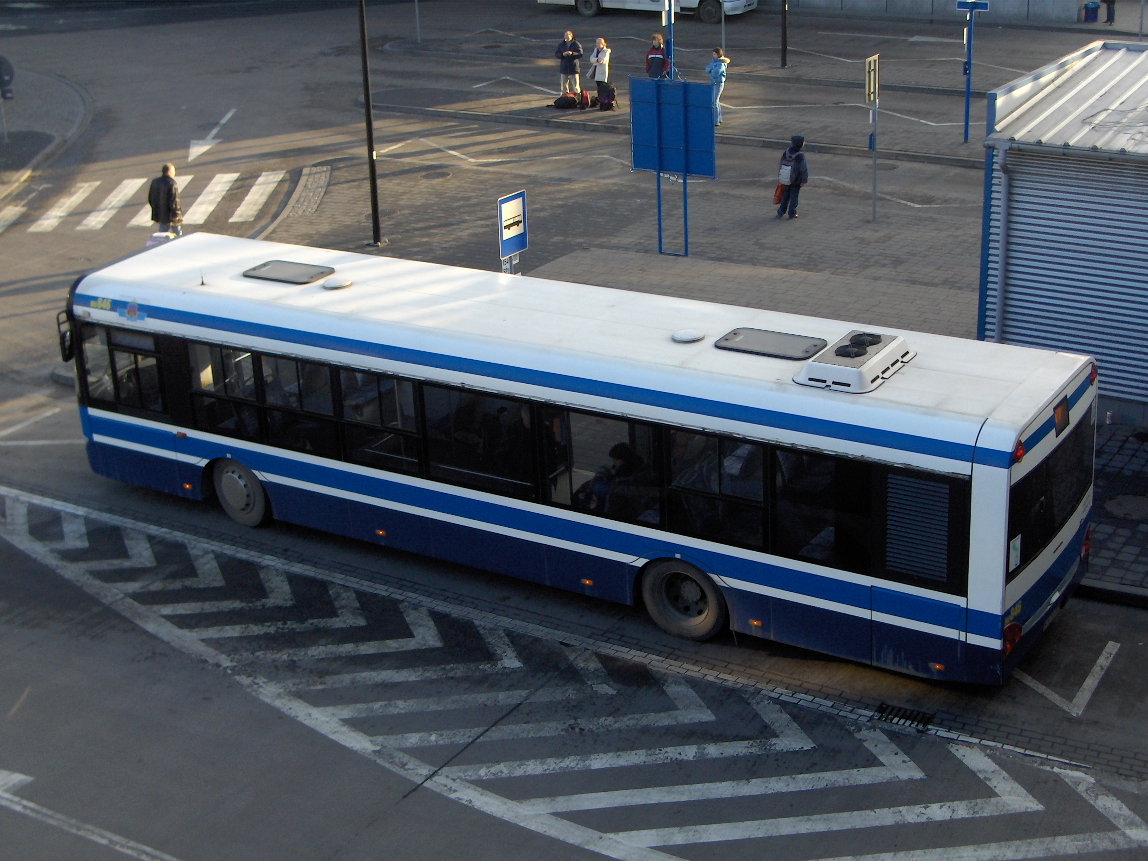 Solaris Urbino 12 Mk2 bus (#BU846) in Kraków, Poland. Built 2004, MPK Kraków operator.